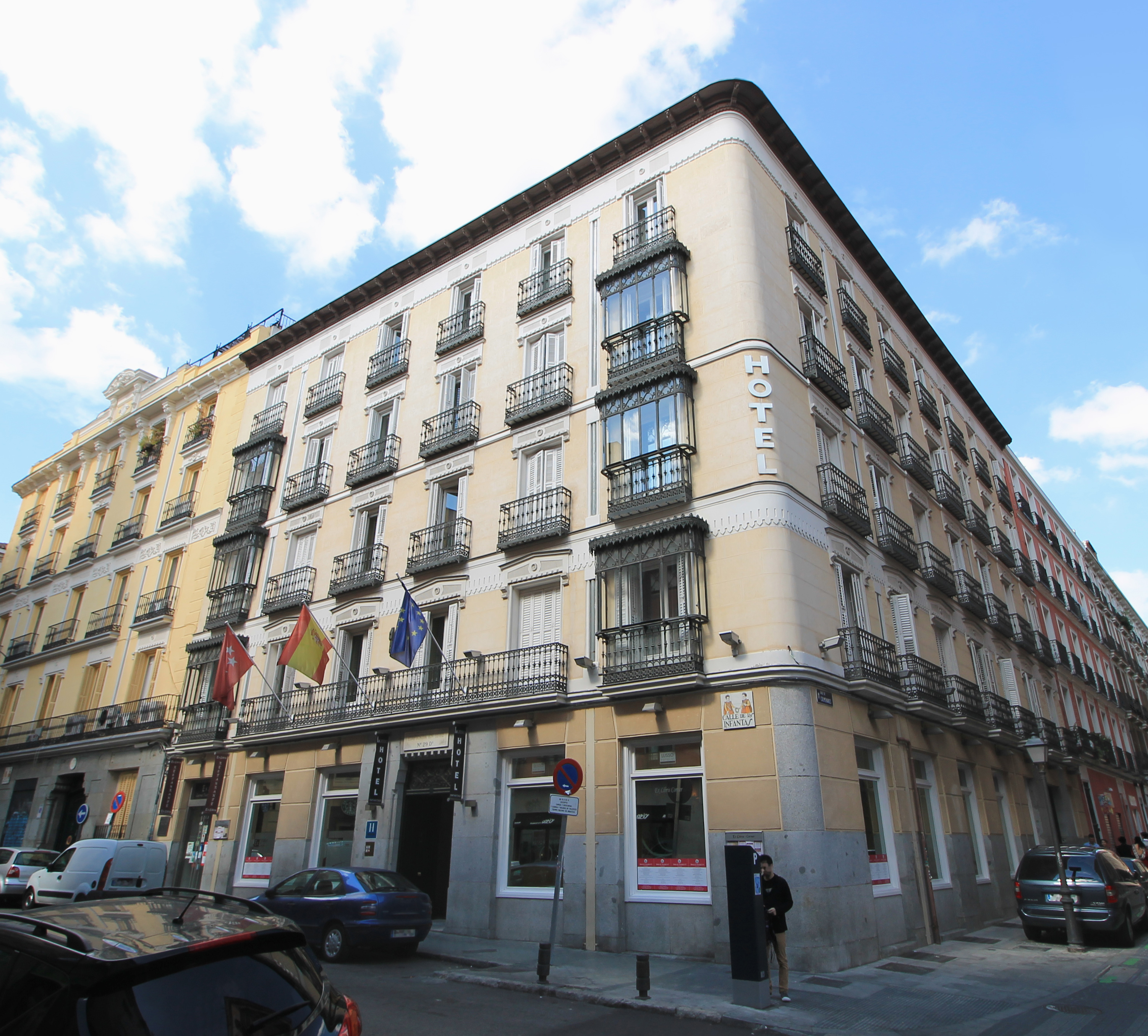 Façade of Hotel Lusso Infantas in Madrid (Spain), at 29 Calle de las Infantas (street). Building was made in 1882.